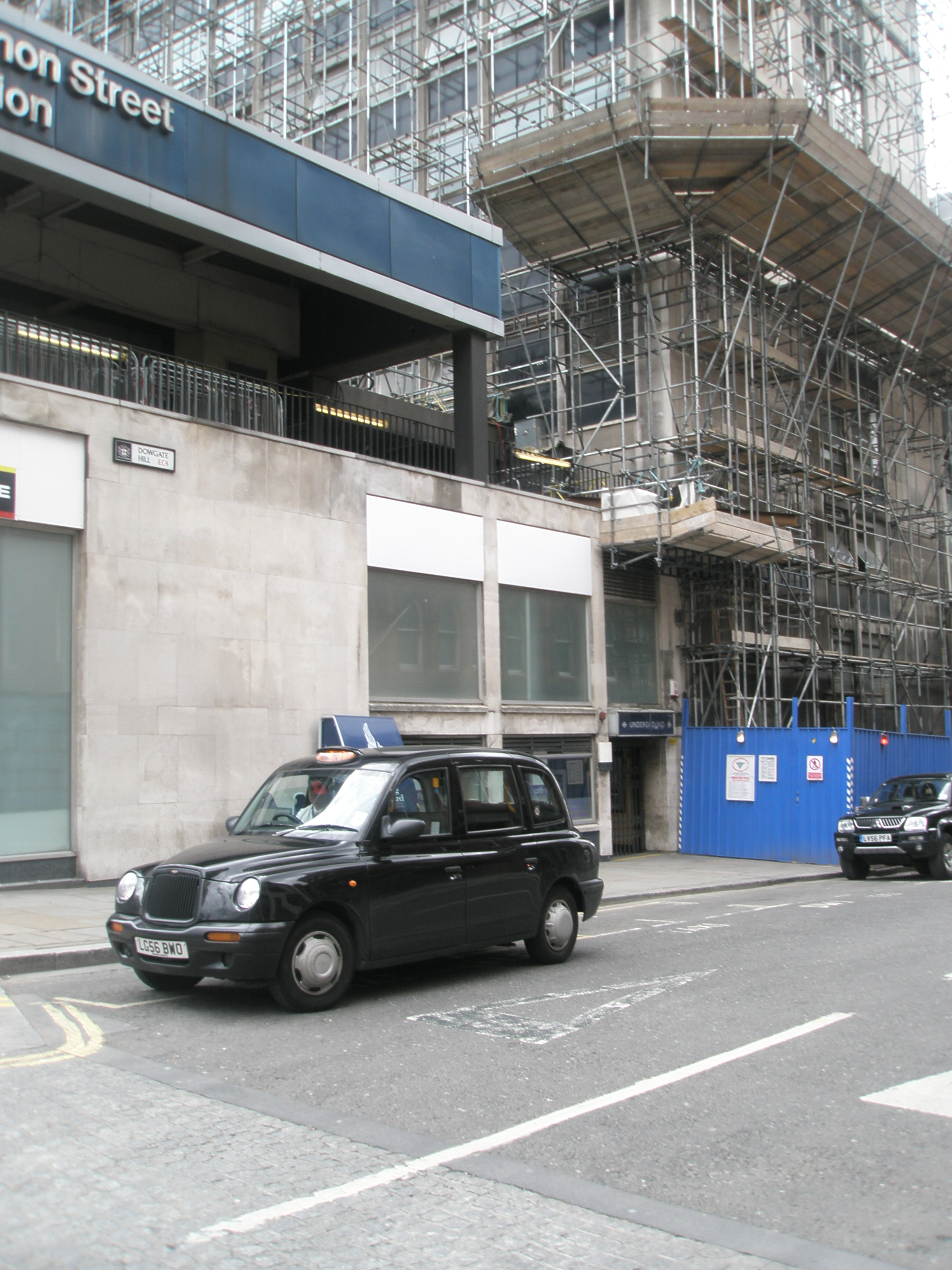 Side of Cannon St Station, LOndon